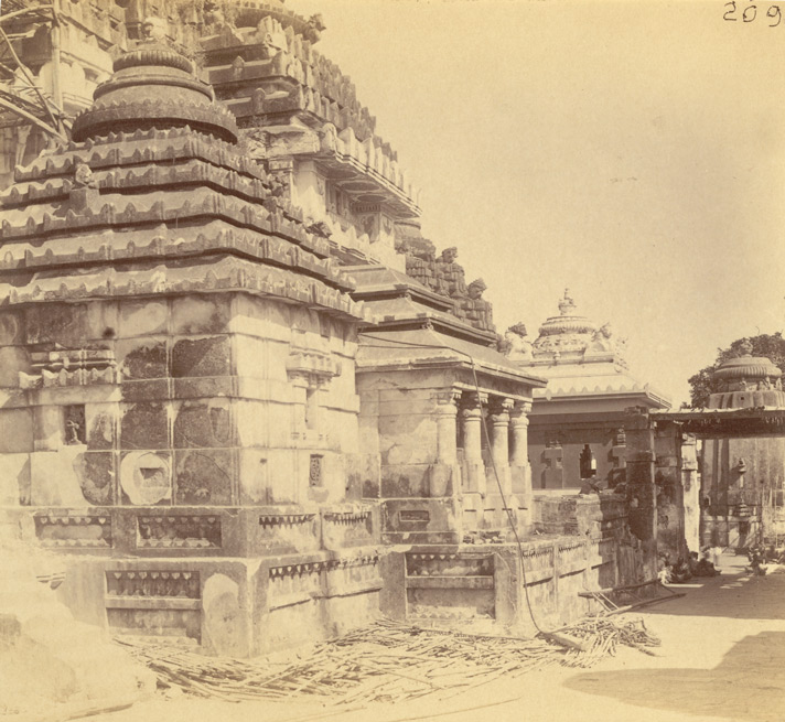 Minor temples to the south of the main Jagannath temple in Puri